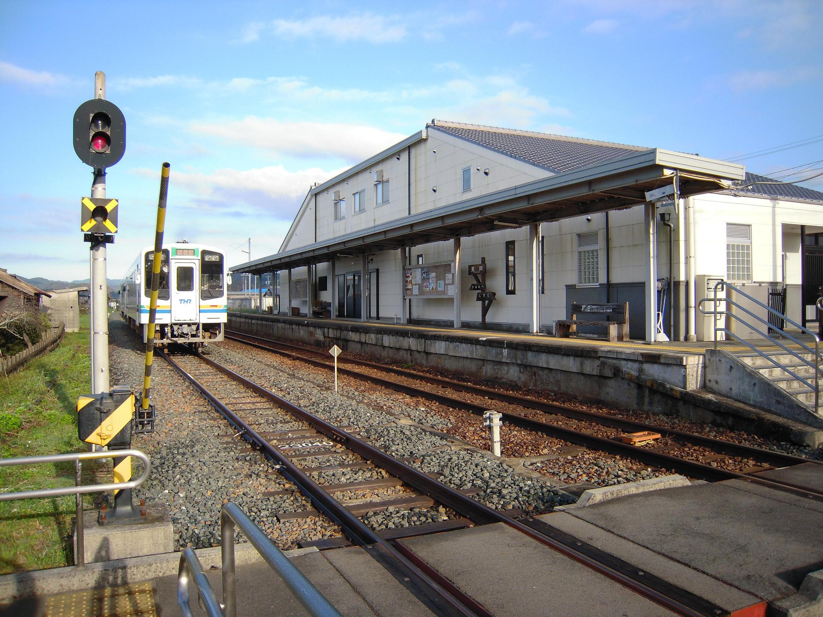 Tenryu-Hamanako railroad company Tyooka Station